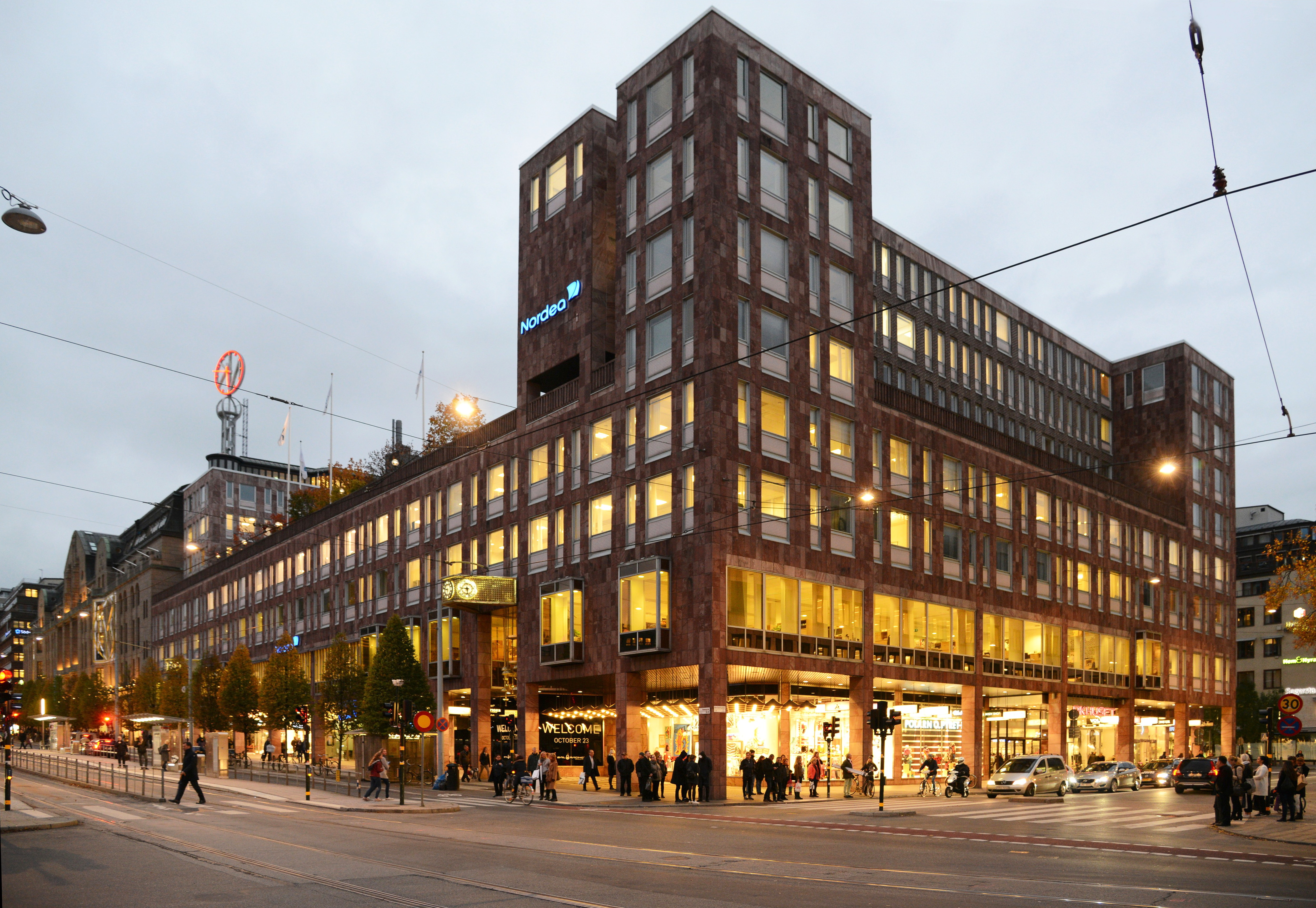 Nordea Bank AB, commonly referred to as Nordea, is a Nordic financial services group operating in Northern Europe. The bank is the result of the successive mergers and acquisitions of the Finnish, Danish, Norwegian and Swedish banks of Merita Bank, Unibank, Kreditkassen (Christiania Bank) and Nordbanken that took place between 1997 and 2000. The Baltic countries and Poland are today also considered part of the home market. The largest share holder of Nordea is Sampo, a Finnish insurance company with around 20% of the shares. Nordea is listed on the Copenhagen Stock Exchange, Helsinki Stock Exchange and Stockholm Stock Exchange. Nordea is headquartered from Stockholm and has more than 1,400 branches. The bank is present in 19 countries around the world, operating through full service branches, subsidiaries and representative offices